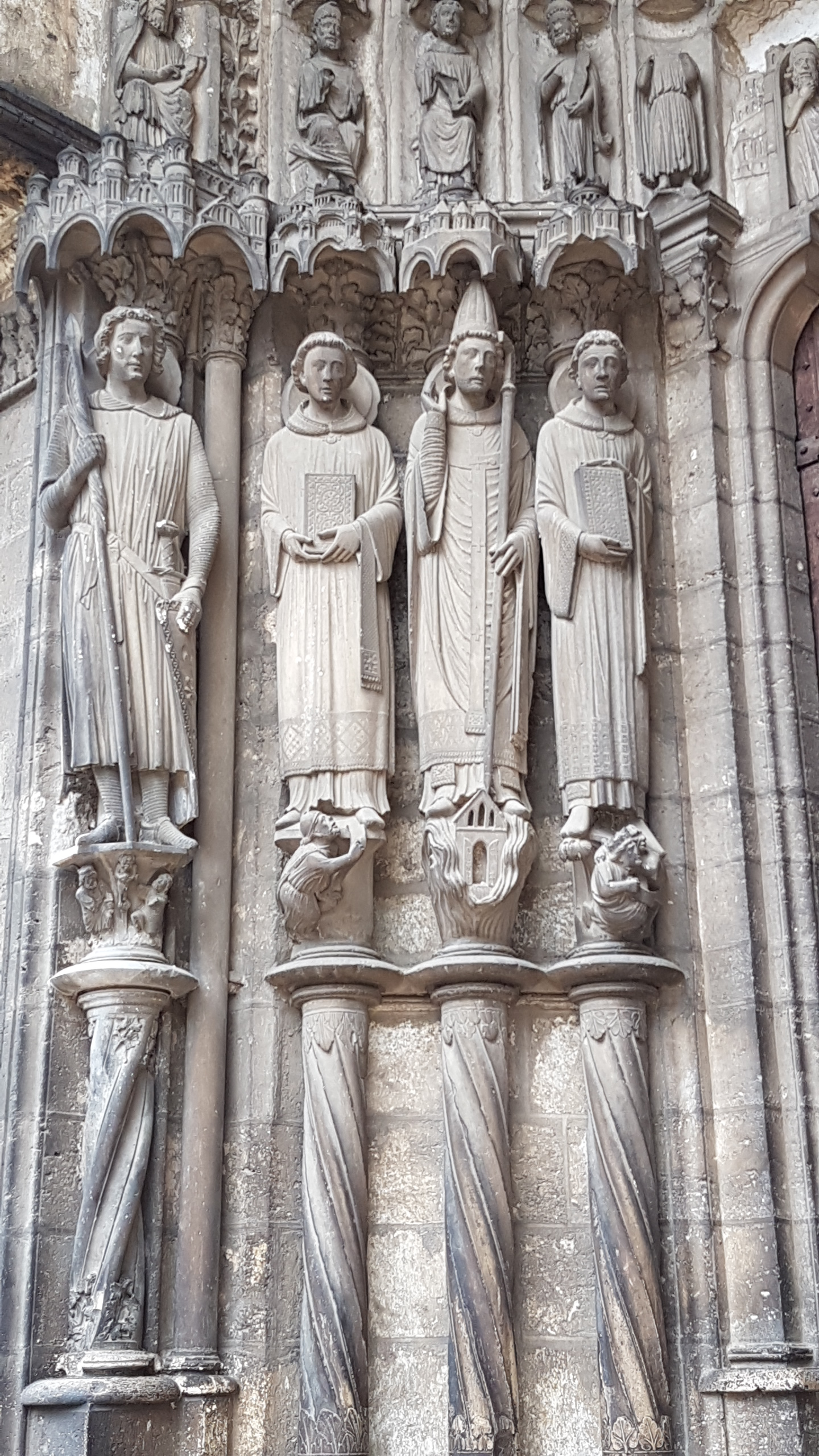 Left part of the left bay of the South Porch in Notre-Dame de Chartres.